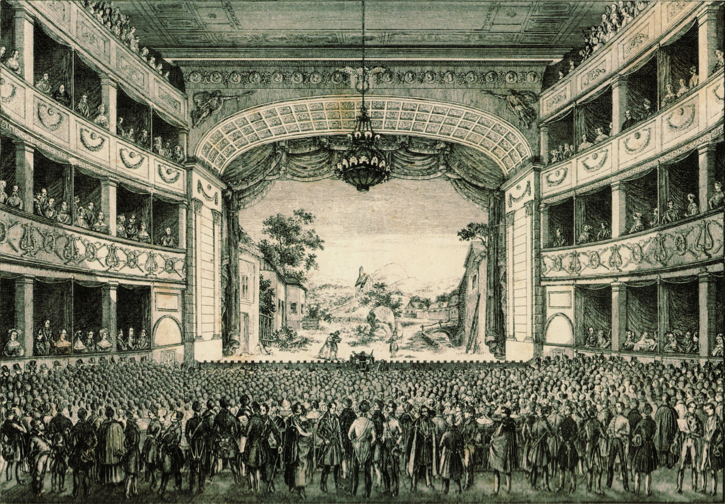 Interior of the Moravian Theatre in Olomouc. Engraving, ca. 1839. Collection: Státní okresní archiv Olomouc (State District Archives Olomouc)